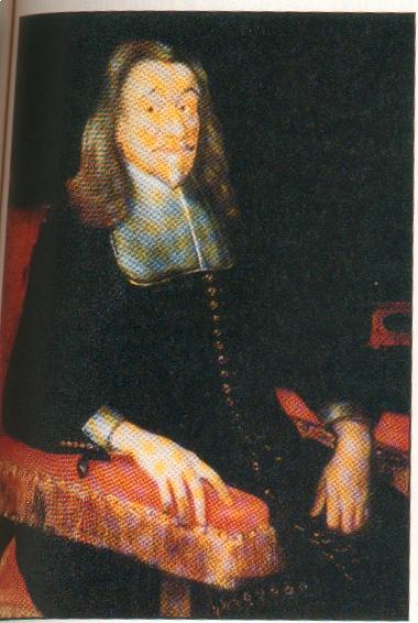 Source: Genealogy Database by Daniel de Rauglaudre